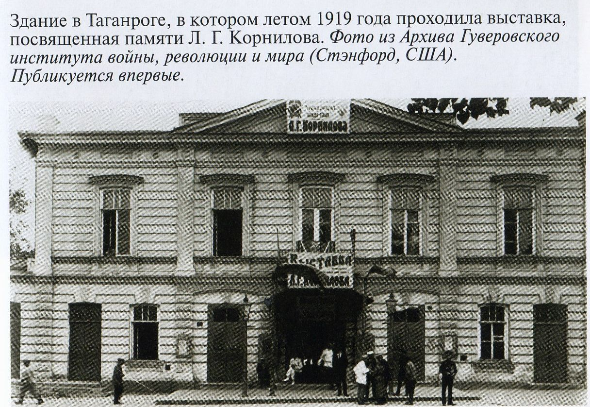 Photo of building at which temporary exhibition dedicated to General Lavr Kornilov, one of the leaders of Russian White Movement, took place in Taganrog, Russia, summer 1919.